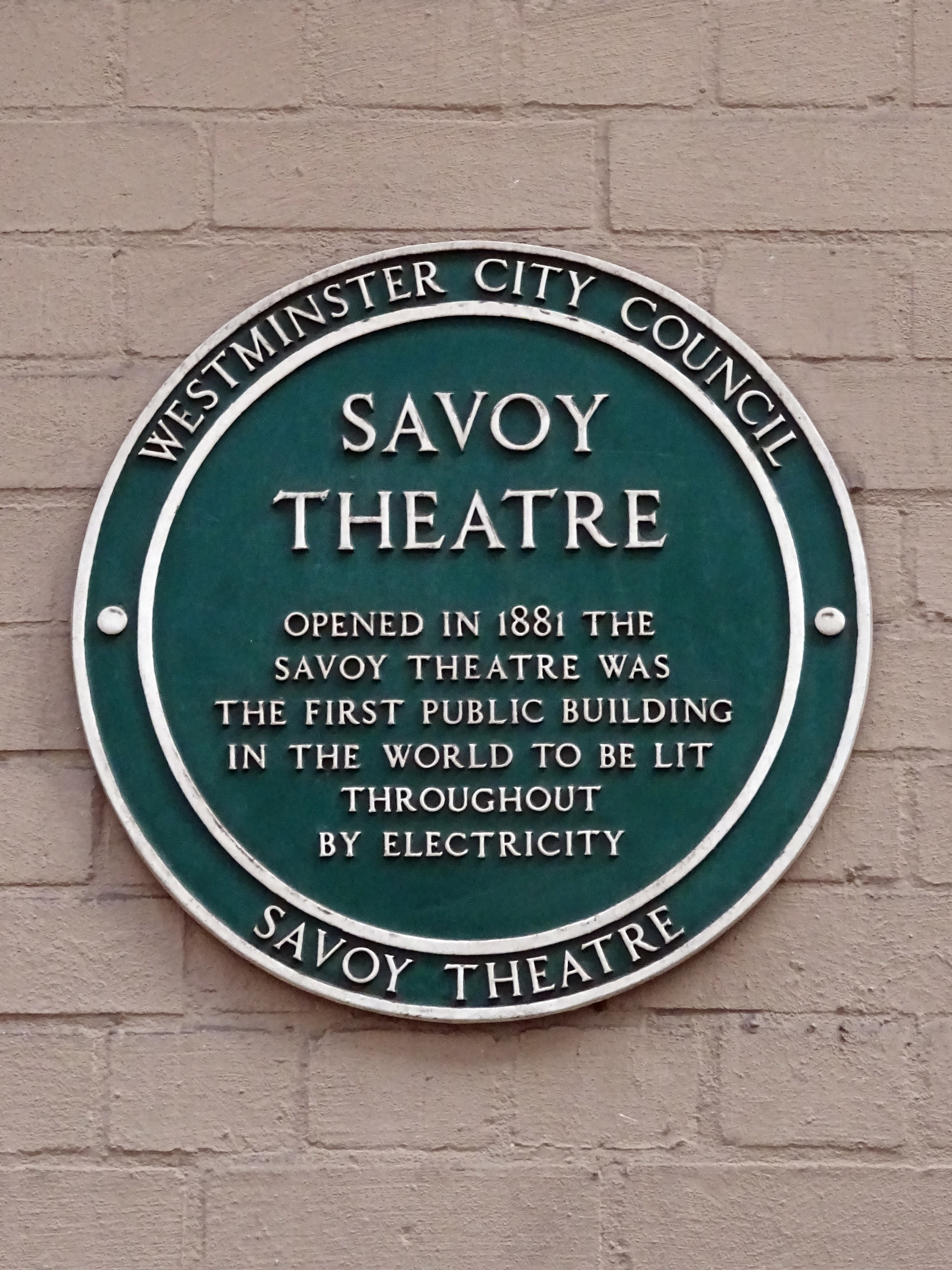 Green Plaque erected by the City of Westminster and the Savoy Theatre on 5th November 1993 at Carting Lane, London WC2R